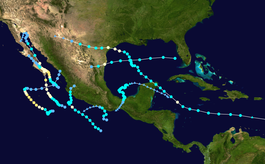 Tracks of all landfalling hurricanes in mexico during 2003